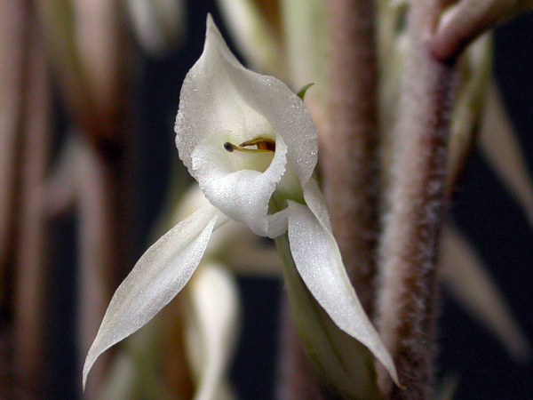 Eltroplectris schlechteriana